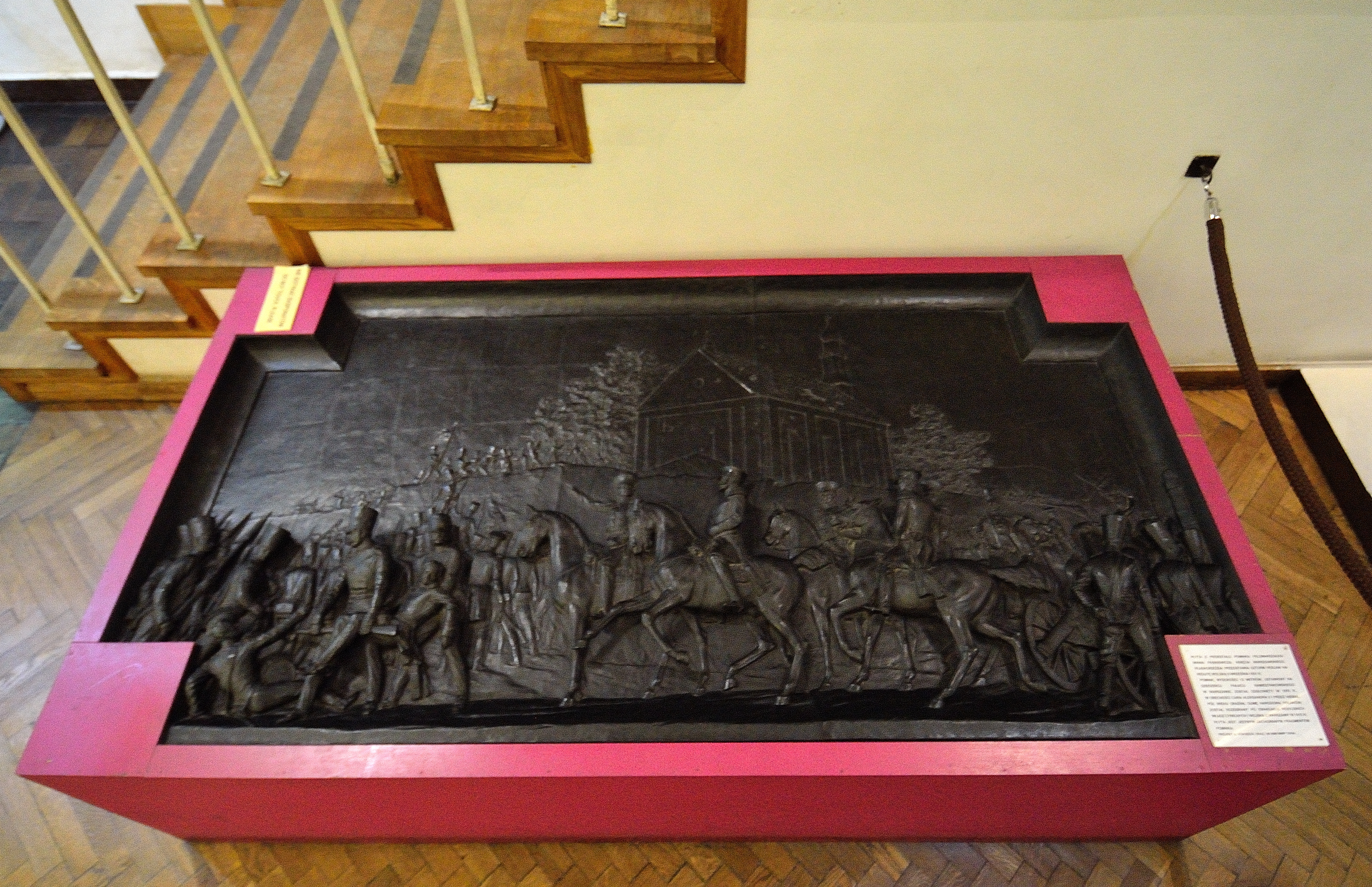 A plaque from the Ivan Paskevich monument pulled down in 1917 on display in the Polish Army Museum in Warsaw